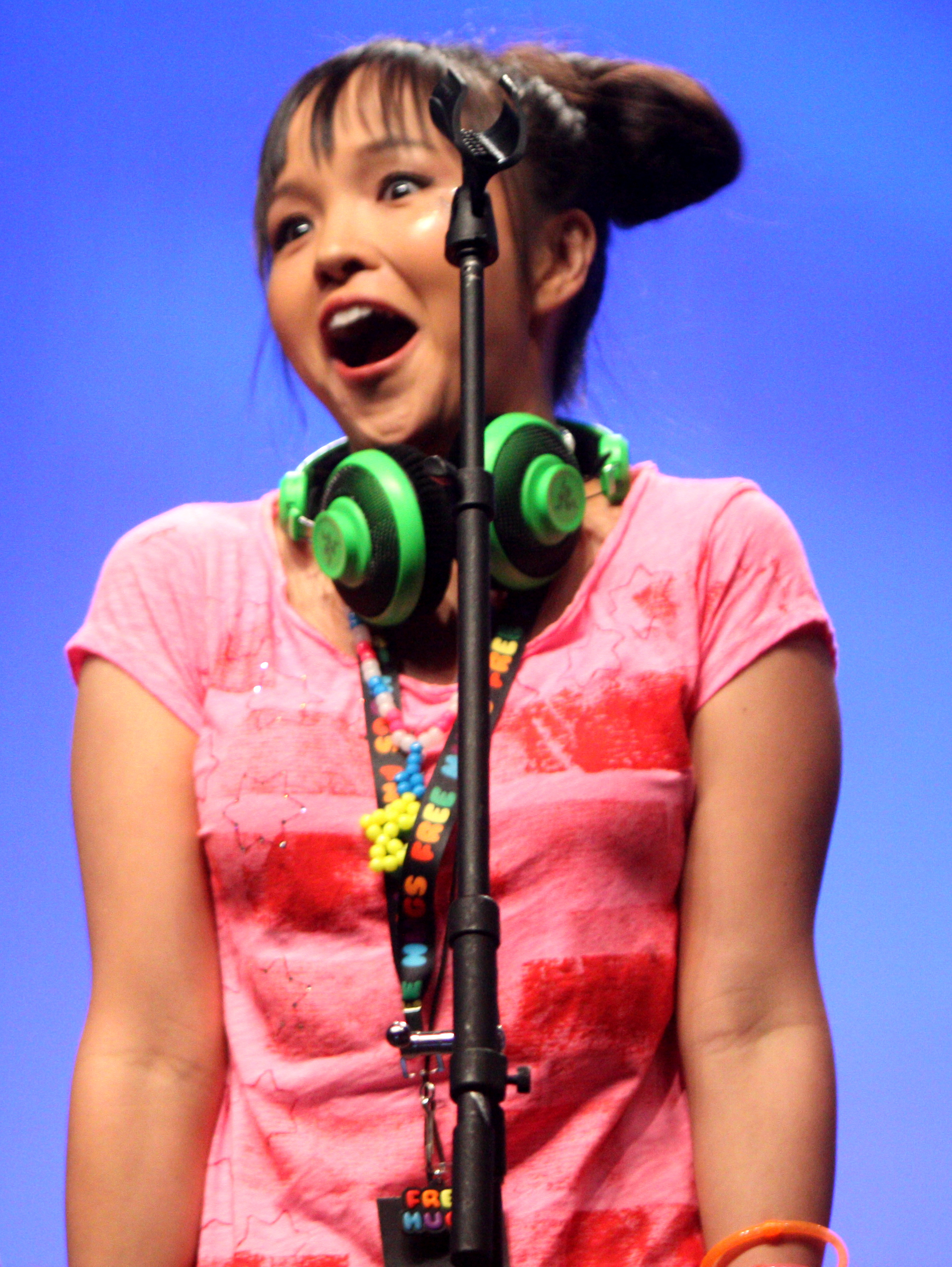 Dubstep & Techno of MyMusic speaking at VidCon 2012 at the Anaheim Convention Center in Anaheim, California.